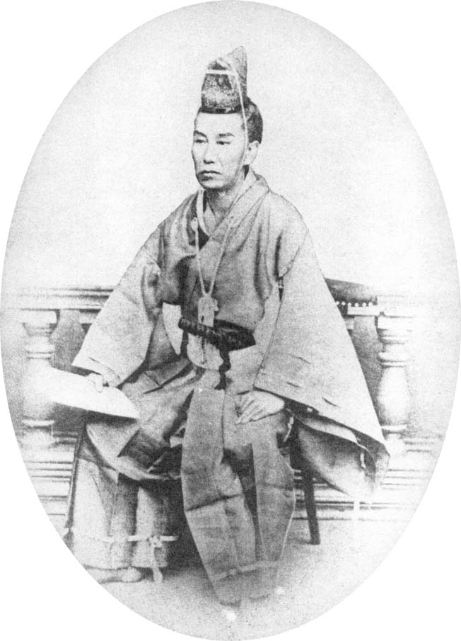 Portrait of Mr. Motoda when he began serving in the Imperial Household Ministry.